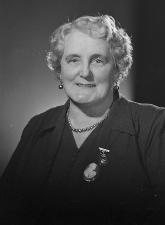 Head-and-shoulders portrait of Mary Manson Dreaver, MP for Waitemata, wearing a medal and Cameo brooch on her lapel.